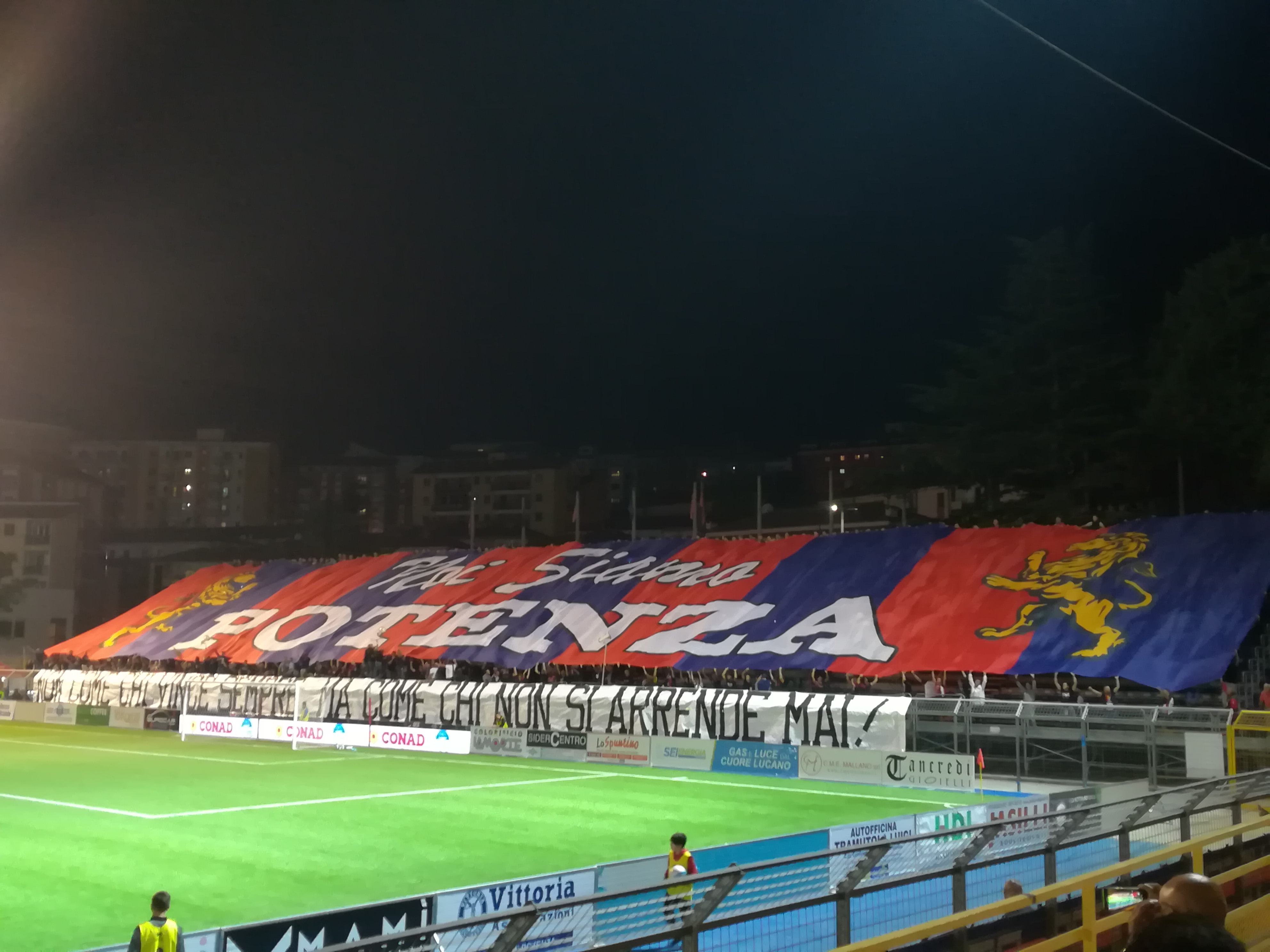 Image of Potenza Calcio supporters at Stadio Viviani